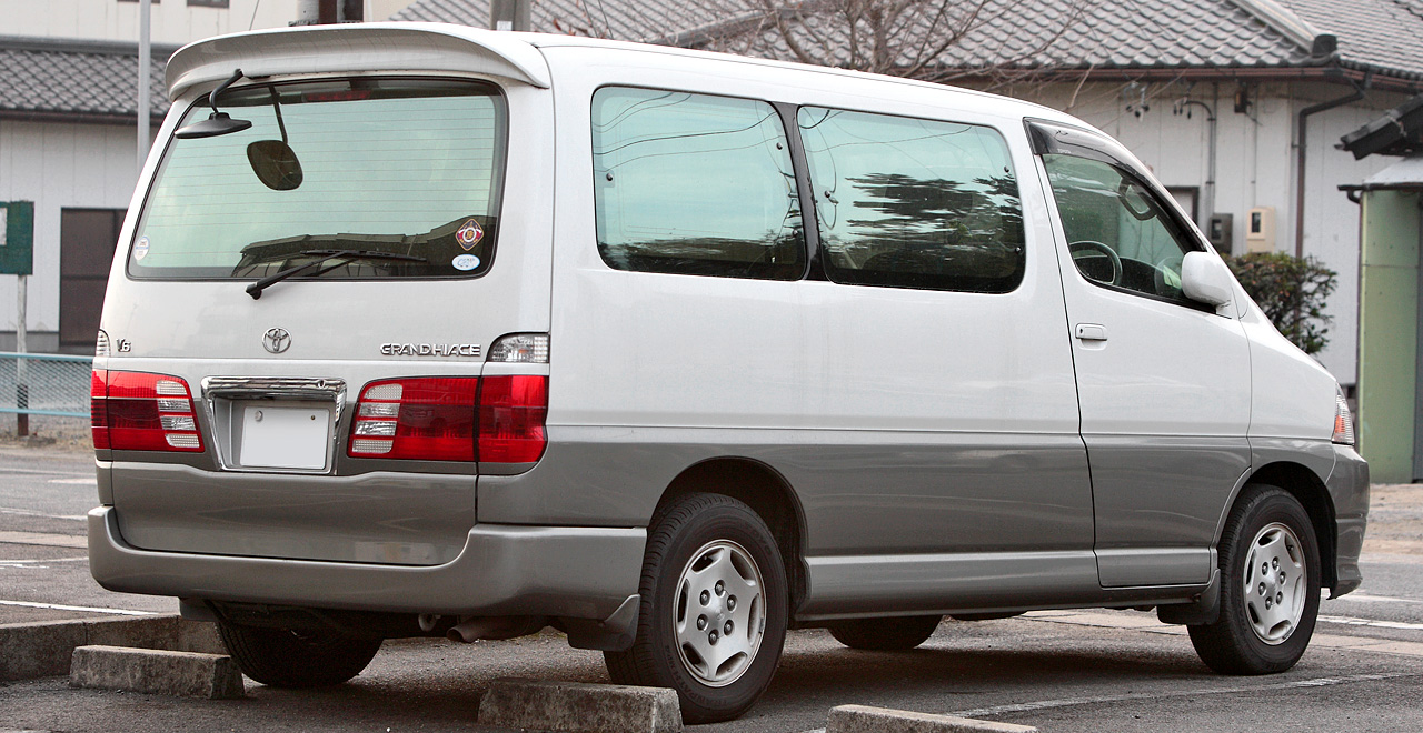 Toyota Grand Hiace ( VCH10W )